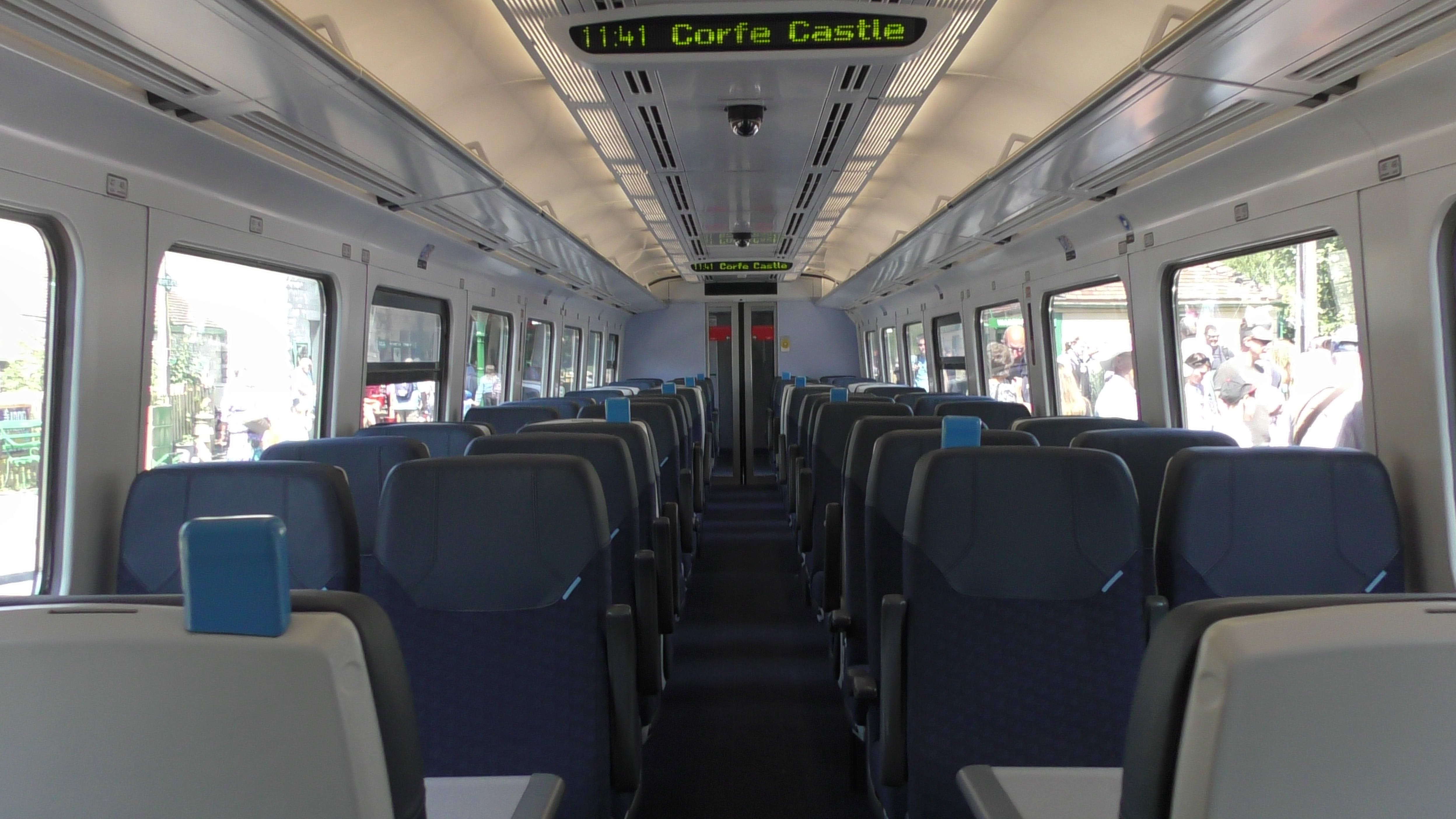 The interior of 159014, after being partially refurbished by SWR.